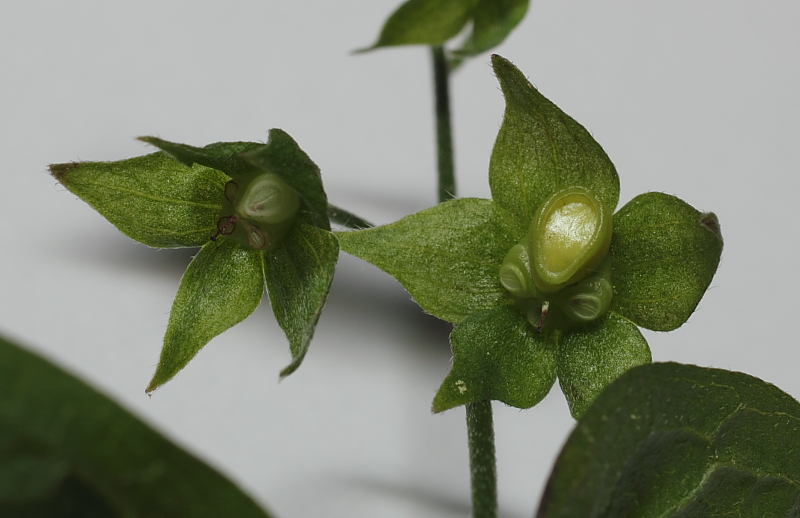 Fruits of Omphalodes verna, Styra, Austria